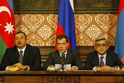 MEIENDORF CASTLE, MOSCOW OBLAST. With President of Azerbaijan Ilham Aliyev and President of Armenia Serzh Sarkisian